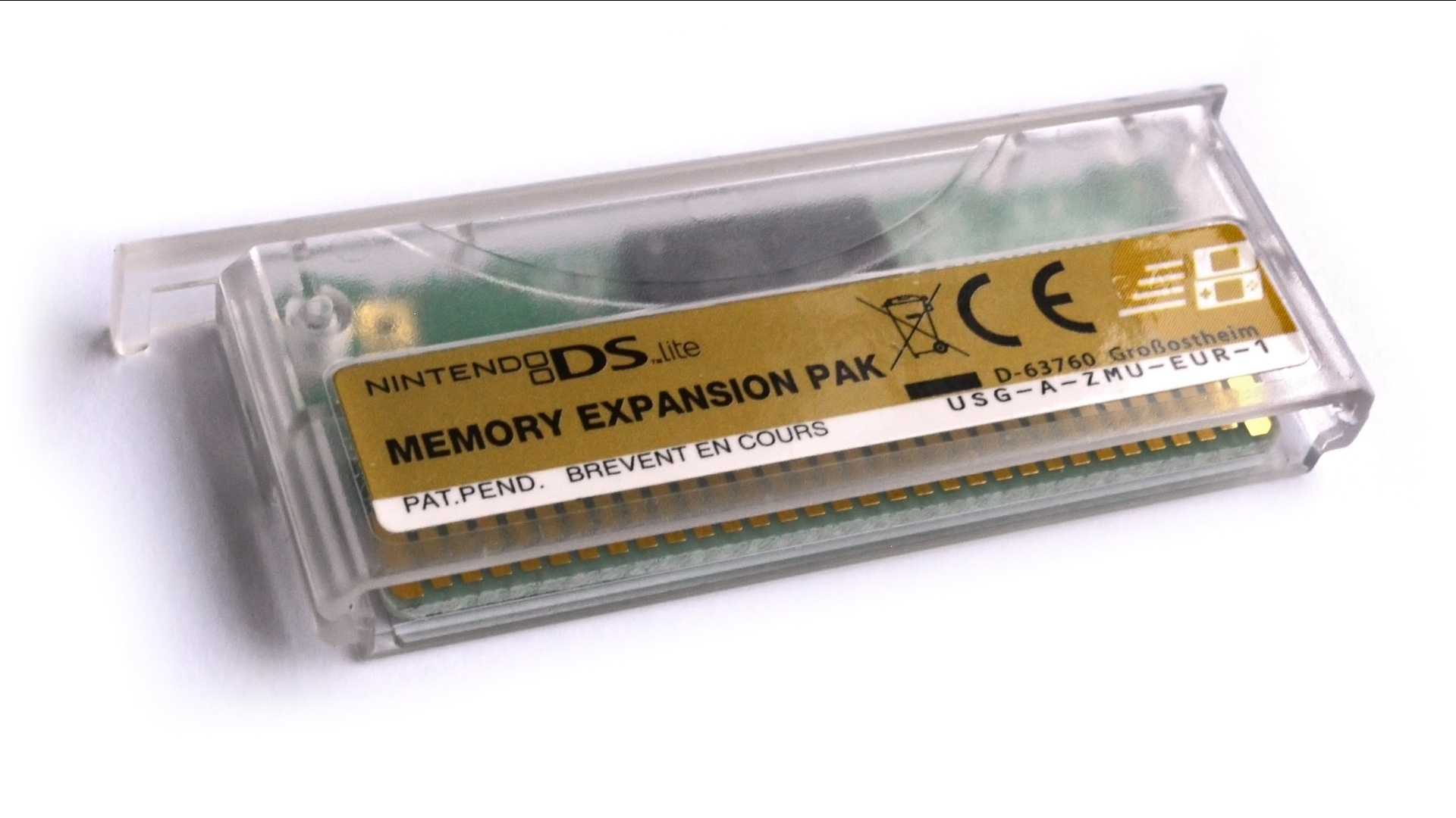 Nintendo DS Lite Memory Expansion Pak (European version) supplied with Nintendo DS browser cartridge. Top and front visible.